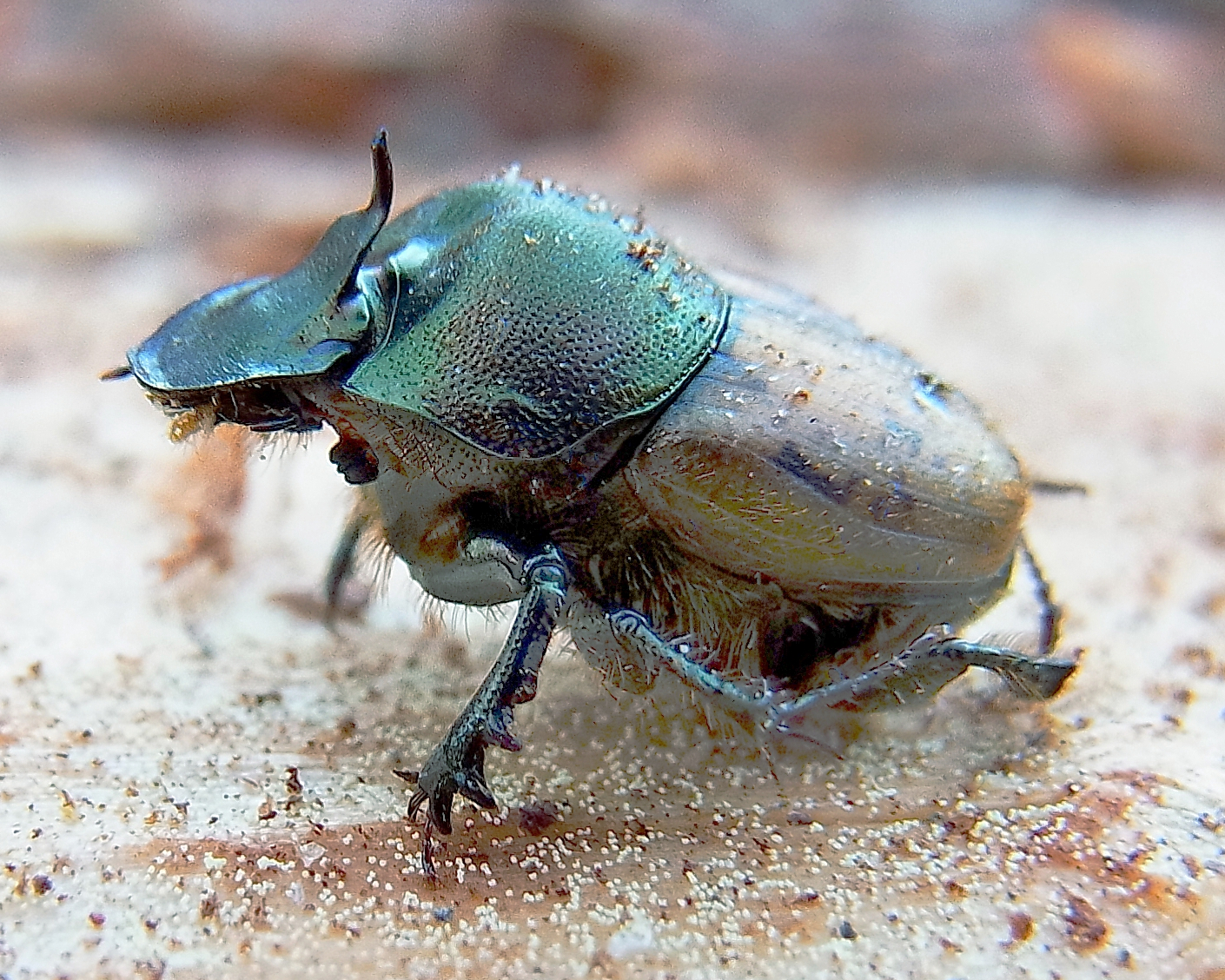 Onthophagus coenobita male from France, near 17210 Bussac-Forêt